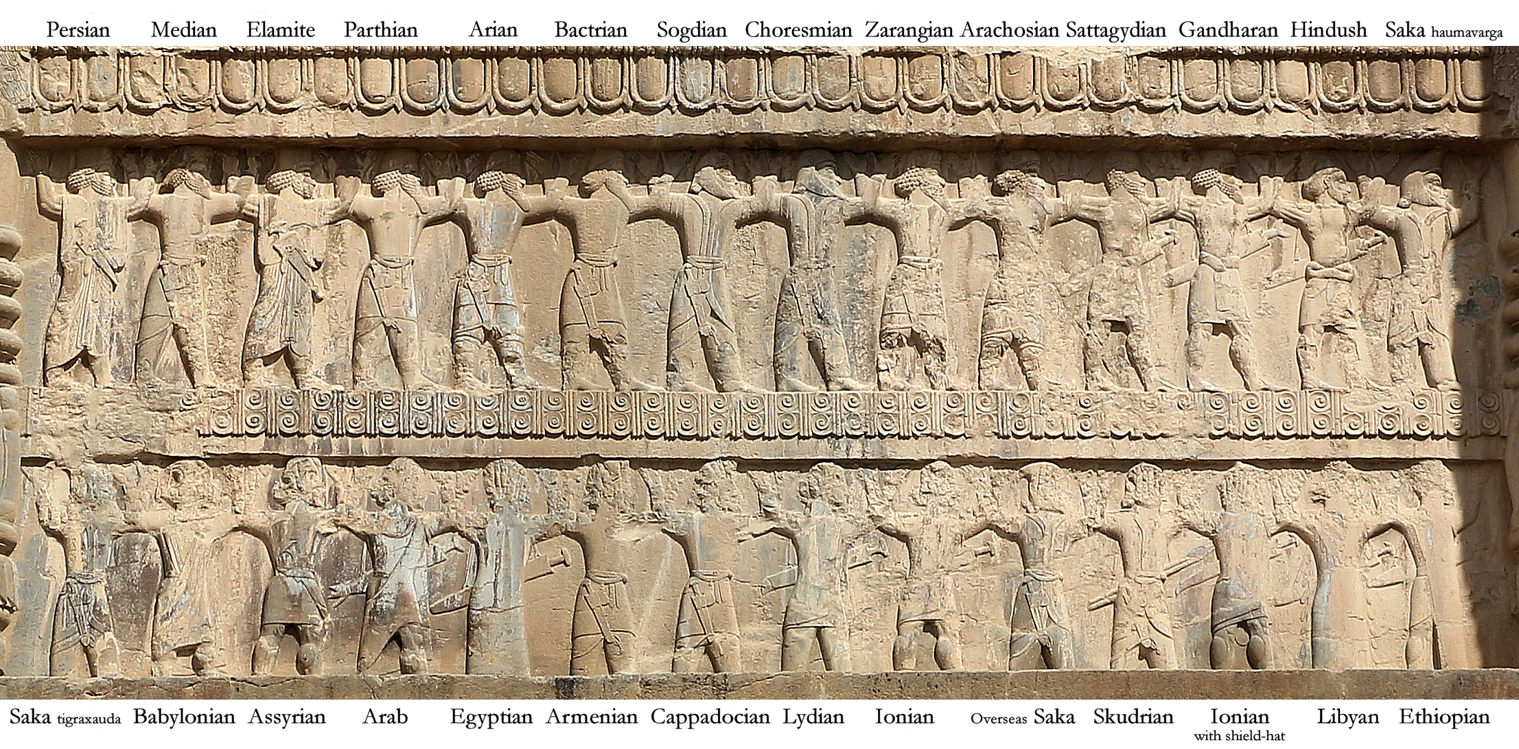 Artaxerxes III soldiers of the Empire, with labels